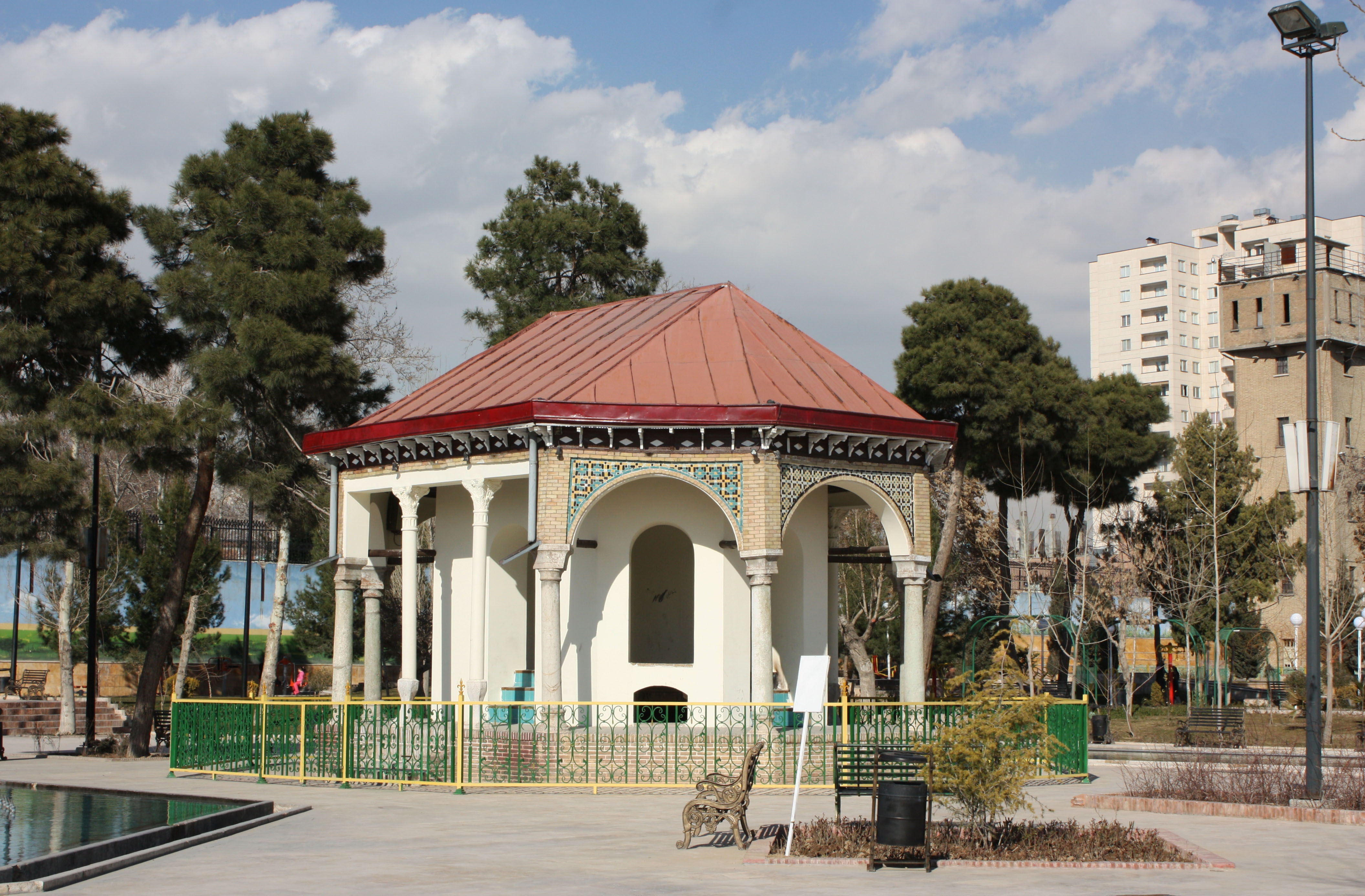 monument in Qasr Prison